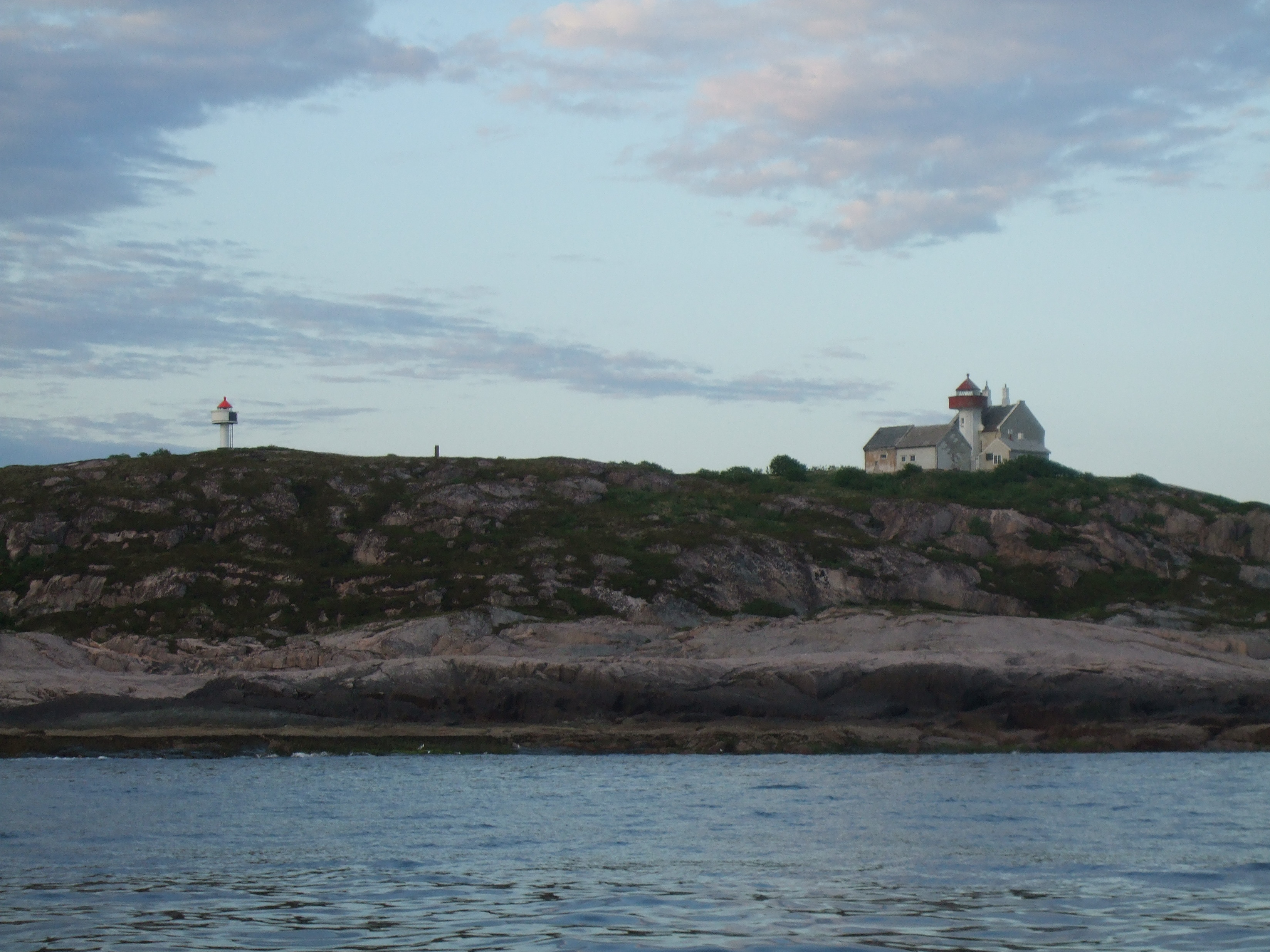 The lighthouse on Flatøy in Steigen seen from the west